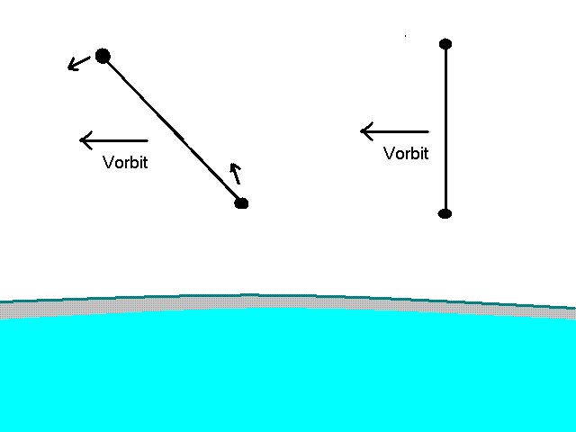 Skyhooks, a spinning skyhook and a tidally stabilised skyhook